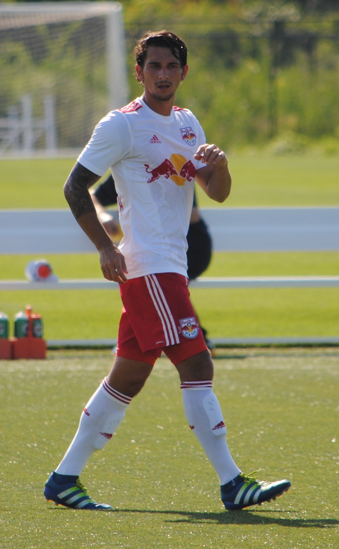 Metzger RBNY II